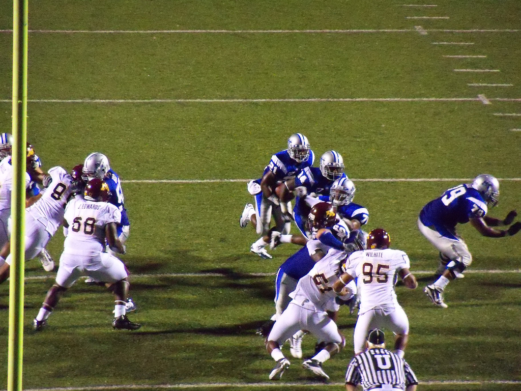 Phillip Tanner carries the ball against Minnesota